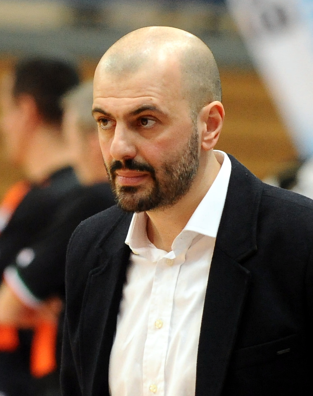 Maurizio Buscaglia, head coach of Aquila Basket Trento, during a match against Veroli Basket at PalaTrento.